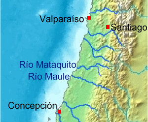 Map of Chile. Rivers between Santiago y Concepción